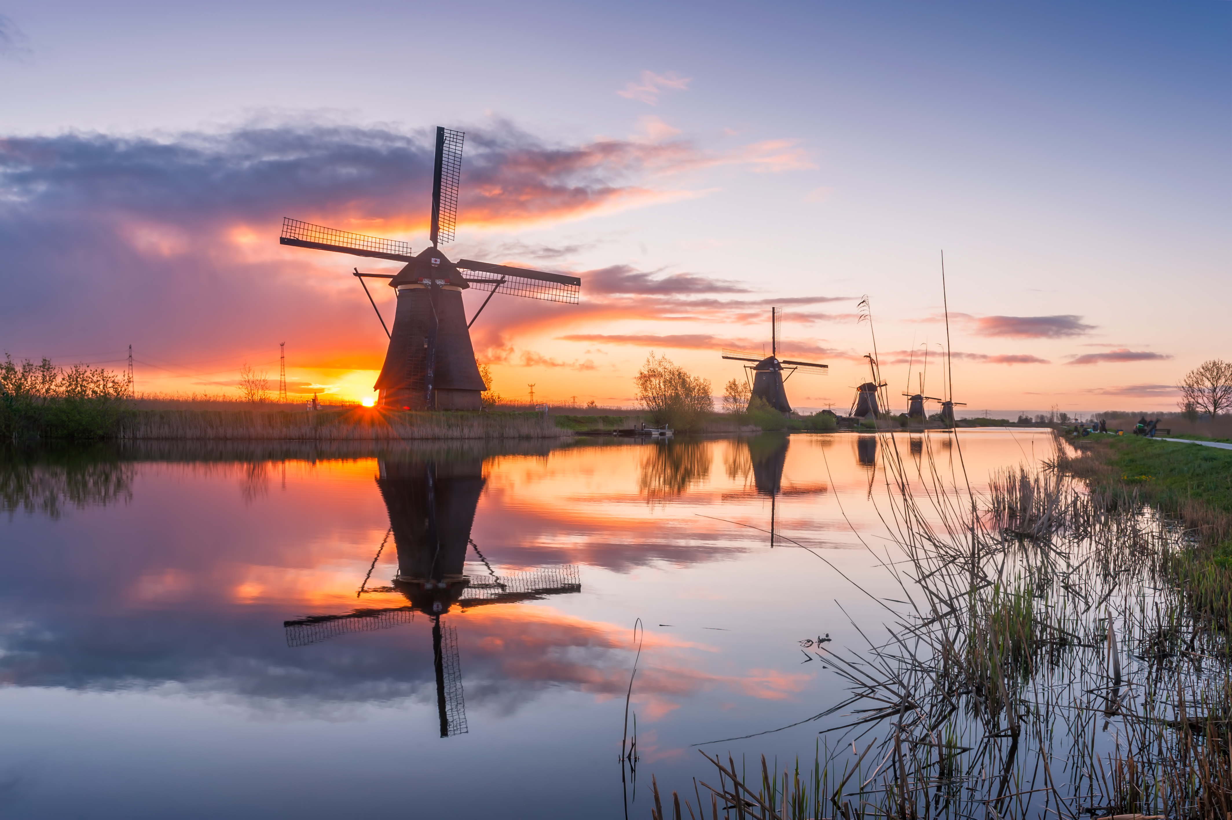 Windmills at Kinderdijk